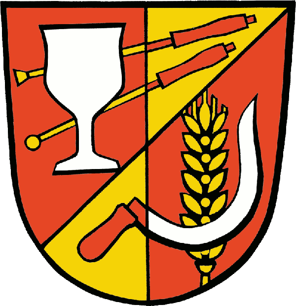 Coat of Arms of Neupetershain